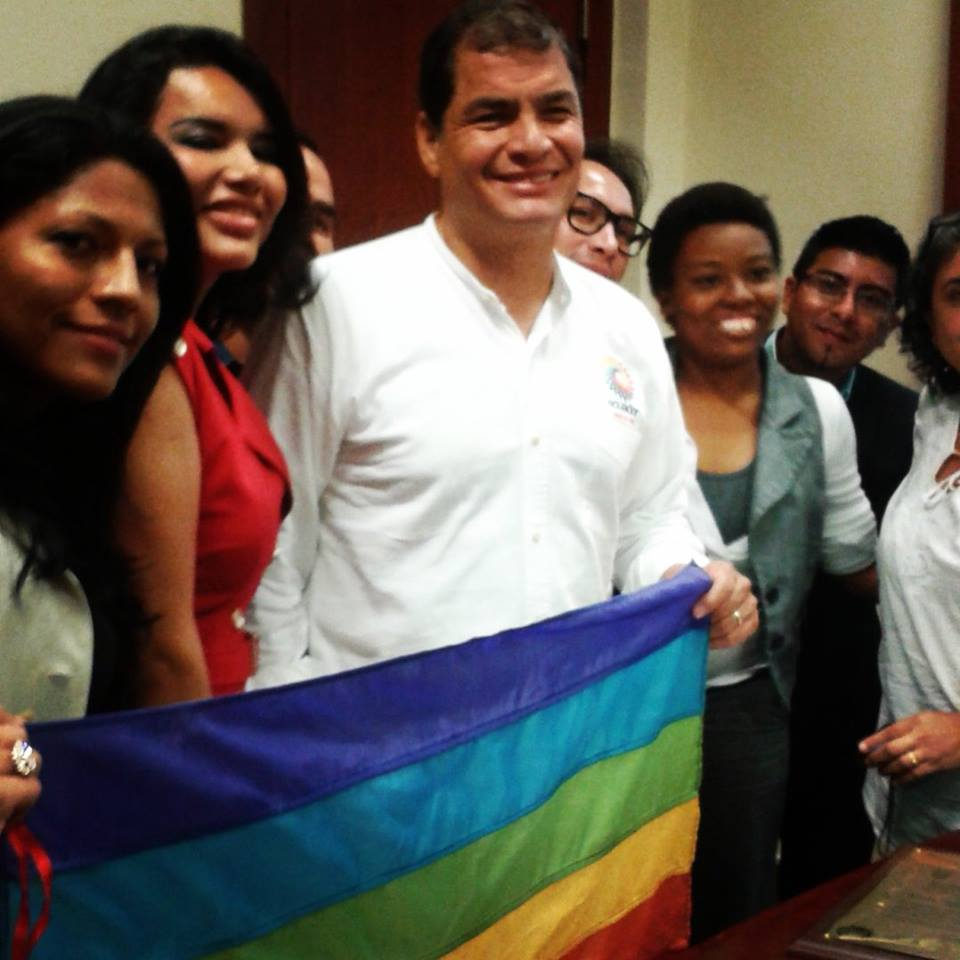 Reunión Histórica entre Representantes activistas LGBTI TILGB GLBTI Silueta X Diane Rodriguez Wilmer Brito Isaias Alvarez con el Presidente de Ecuador Rafael Correa Meeting Commitments President Correa and LGBTI